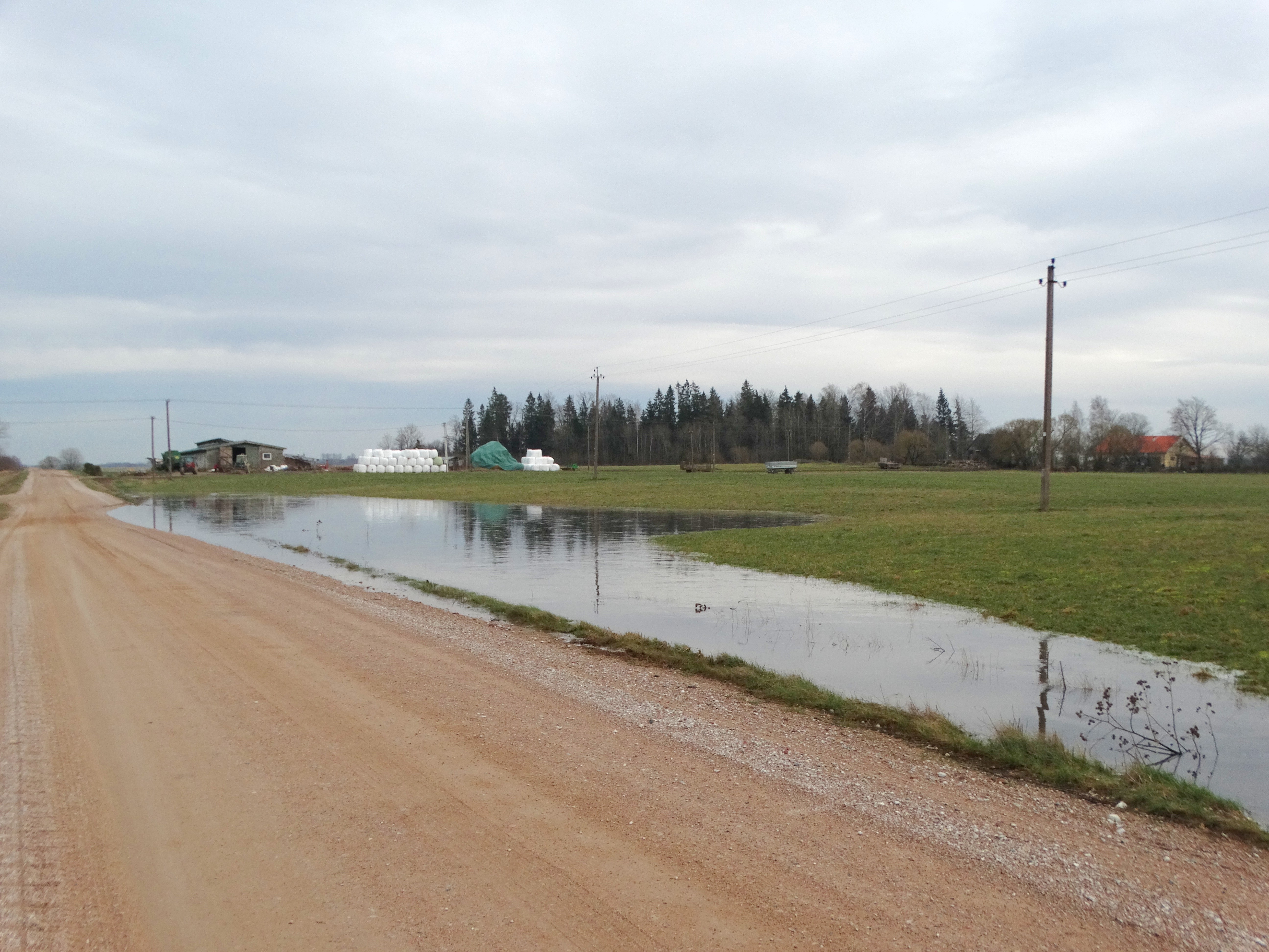 Geidučiai, Skuodas District, Lithuania